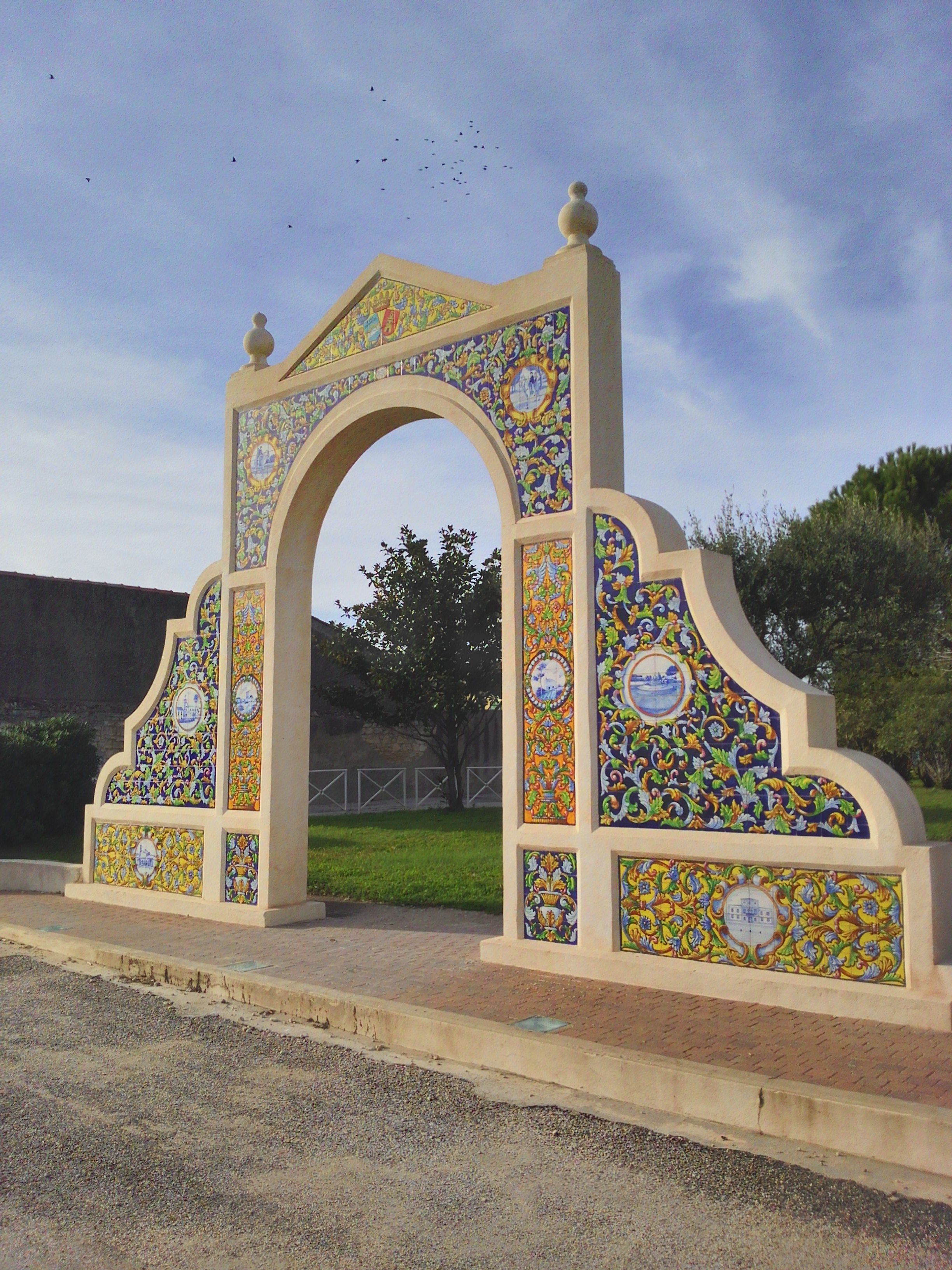 monumental gate to celebrate partnership between Bellegarde (France) and Villamartin (Spain)